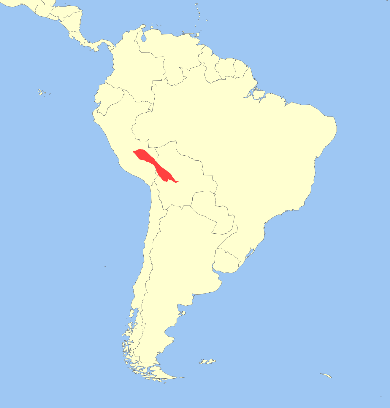 Geographic Distribution of Peruvian Dwarf Brocket (Mazama chunyi).